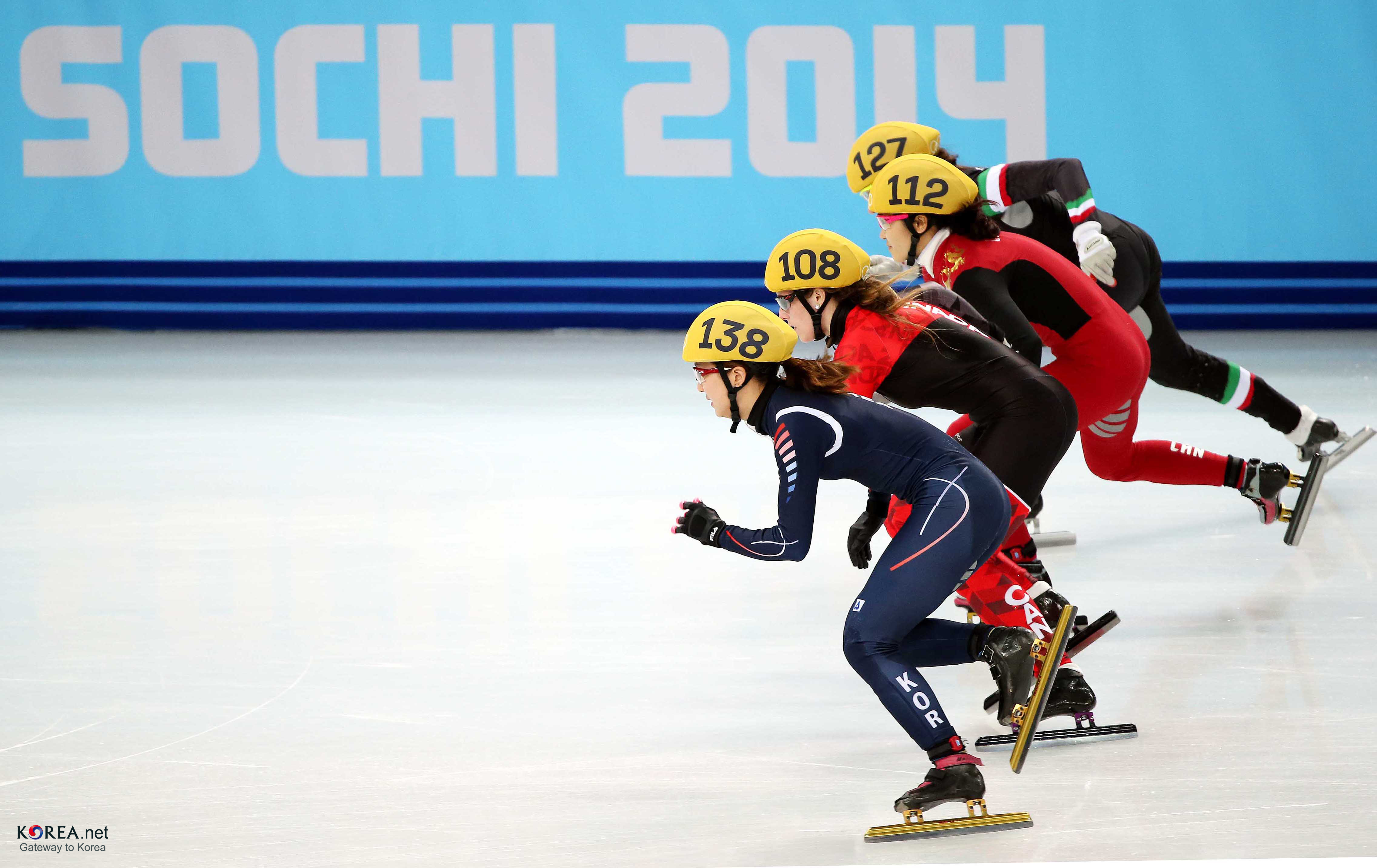 Team Korea won the gold medal in the ladies' 3,000-meter short track relay at the Sochi 2014 Olympic Games in Sochi, Russia. February 18, 2014 Iceberg Skating Palace, Sochi, Russia Photo: The Korean Olympic Committee Related Articles -English- 'Olympic Silver Medal is Invaluable': Shim Suk-hee -Russian- «Серебряная олимпийская медаль бесценна», - Шим Сук Хи -Deutsch- ,Olympische Silbermedaille ist von unschätzbarem Wert‘: Shim Suk-hee -日本語- シム・ソッキ、「五輪銀メダルに満足」 한국 쇼트트랙 여자 대표팀 ‘2014 소치 동계올림픽’ 쇼트트랙 여자 3000m 계주 금메달 획득 2014-02-18 러시아, 소치. 아이스버그 스케이팅 팰리스 사진: 대한체육회